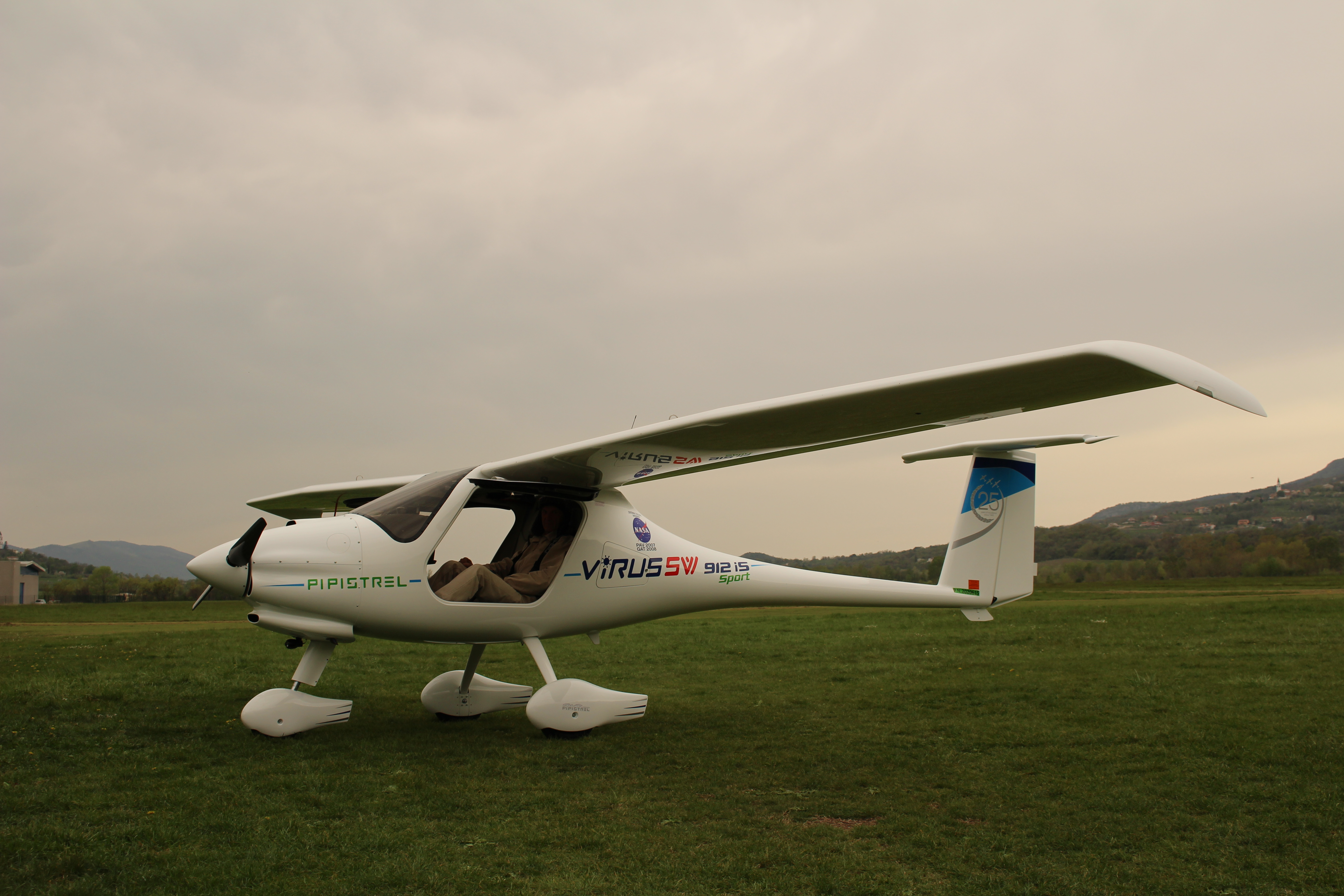 Ultralight aircraft Pipistrel Virus SW 912 IS at the Ajdovščina Airport, Slovenia